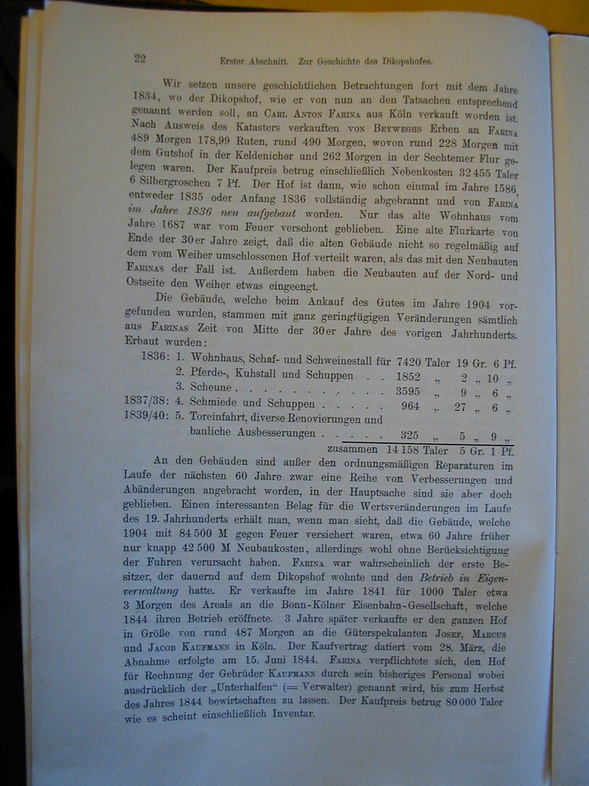 Bericht von Dr. J. Hansen über den Dikopshof; Seite 22 aus: „Erster Bericht vom Dikopshof. Die Einrichtungen und die Versuchstätigkeit auf dem zur Königlichen Landwirtschaftlichen Akademie Bonn-Poppelsdorf gehörigen Gut Dikopshof in den Jahren 1905–1907.“ Veröffentlicht im Verlag Paul Parey, Berlin, 1908, vgl. Digitalisat.